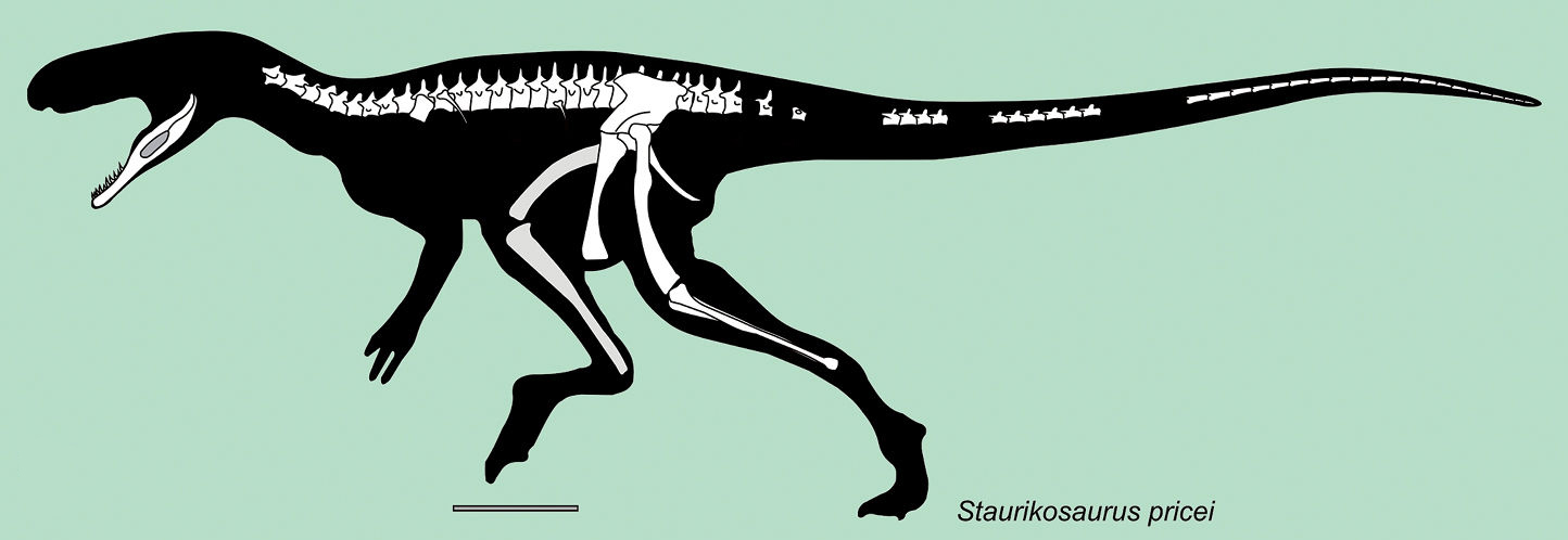 Silhouette reconstruction of the skeleton of Staurikosaurus pricei.